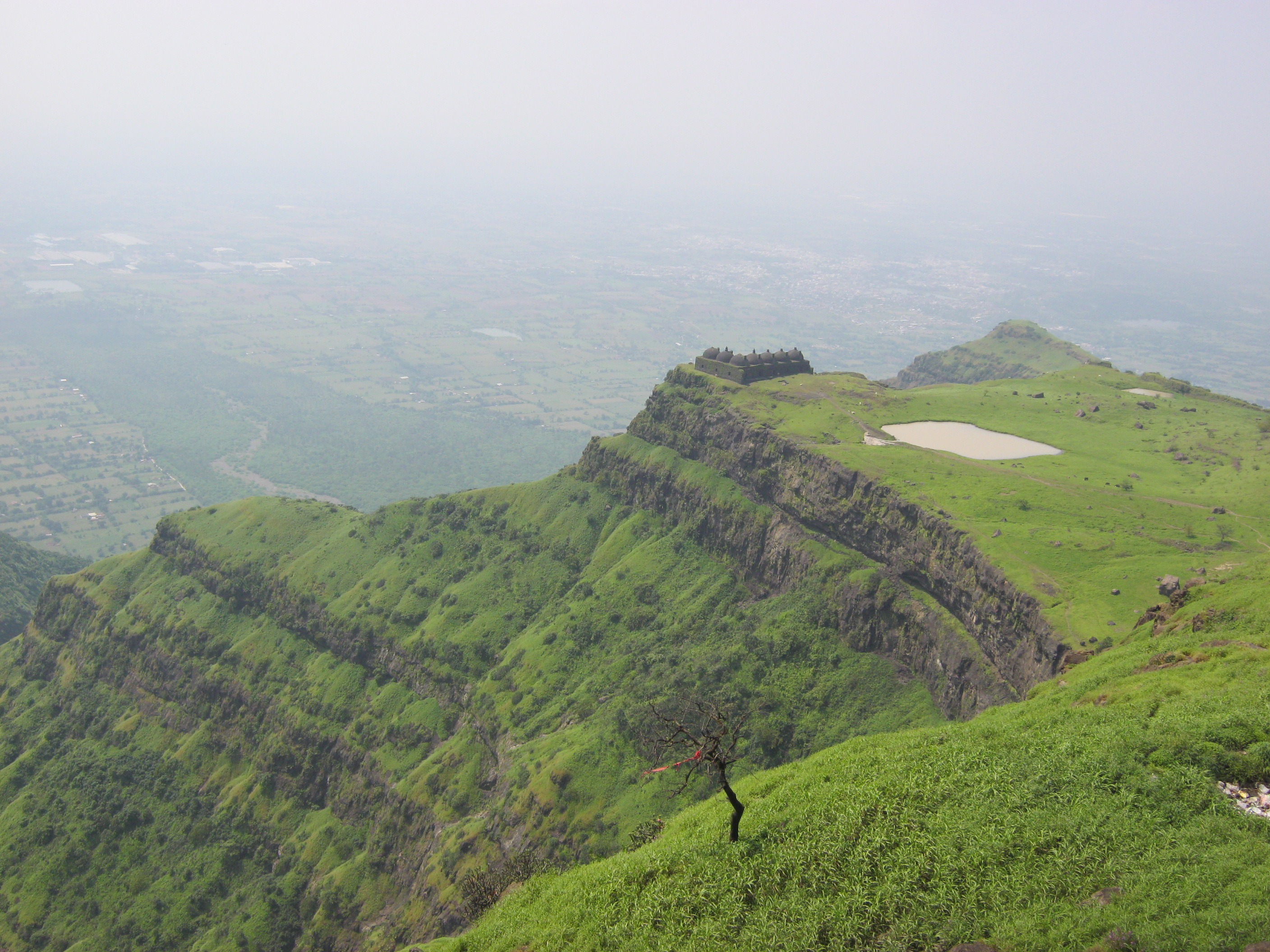 Pavagadh Hill Station is located in panchmahal district of Gujarat.